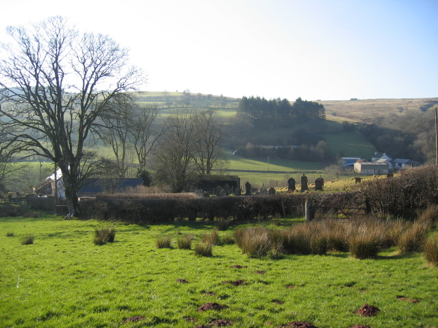 Blaendyryn in the Nant Bran Valley, near to Blaendyryn, Powys, Great Britain. Looking west across the Nant Bran valley past Blaendyryn and the old graveyard towards Maesybeddau Farm in the middle distance on the right.